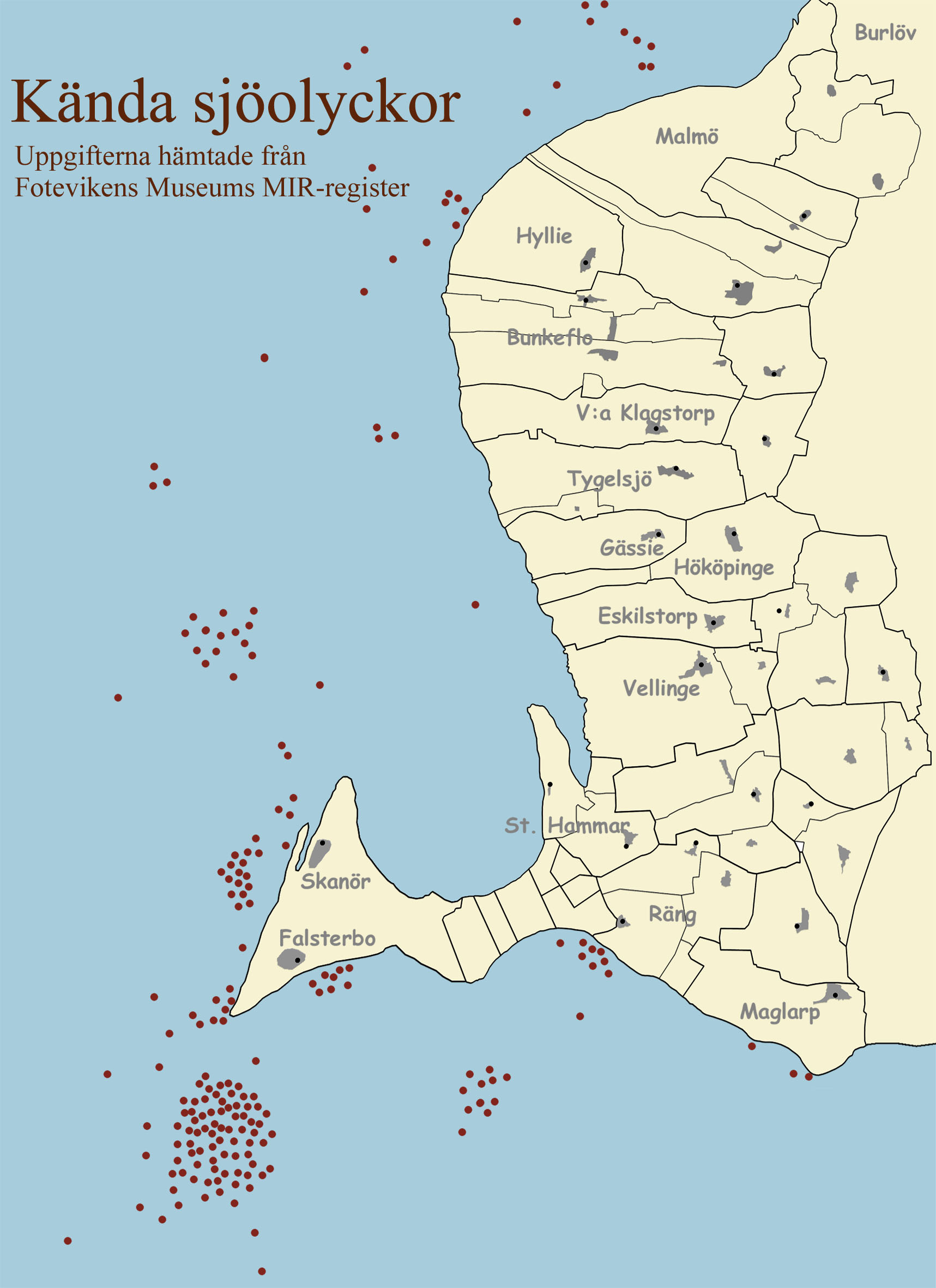 Sea accidents from 1750 to_1950 at the SW coast of Scania Sweden.